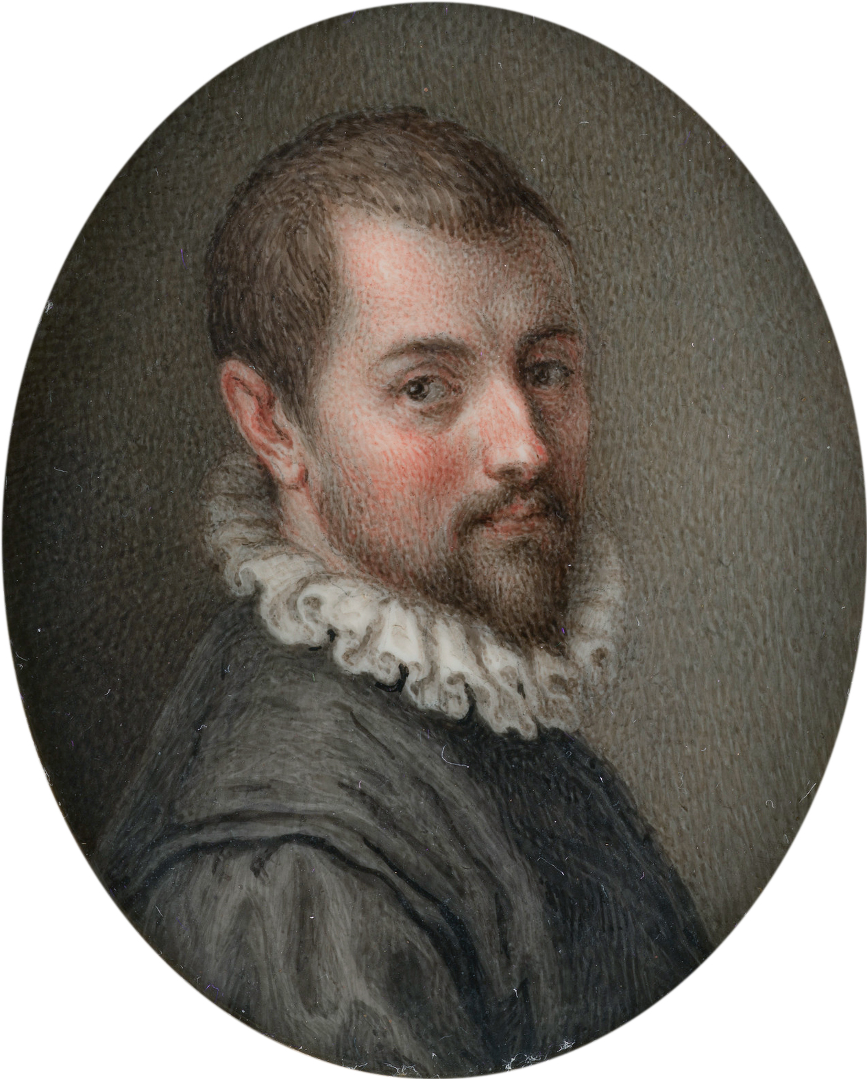 Giovanni Battista Paggi, after Giovanni Battista Paggi ivory 7.0 x 5.7 cm